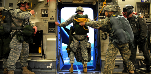 U.S. Army airborne operation - A U.S. Army Paratrooper stands in the door of a C-17 as a jumpmaster prepares him and his stick to exit the aircraft on his signal